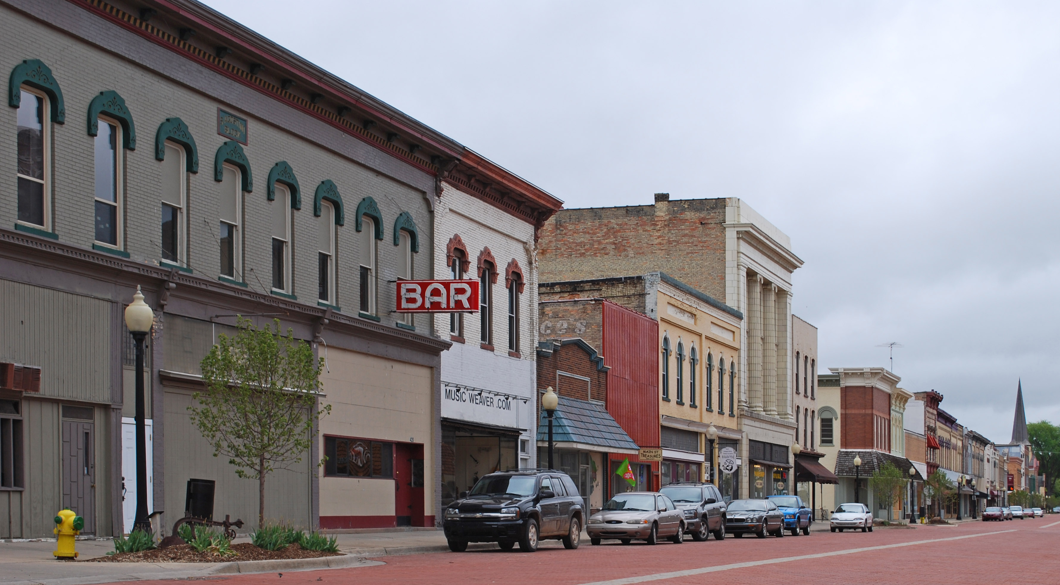 Ionia Downtown Commercial Historic District in Ionia MI, Main Street near Dexter